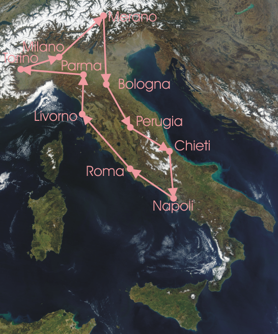 Map of Italy highlighting the stages of 1921 Giro d'Italia